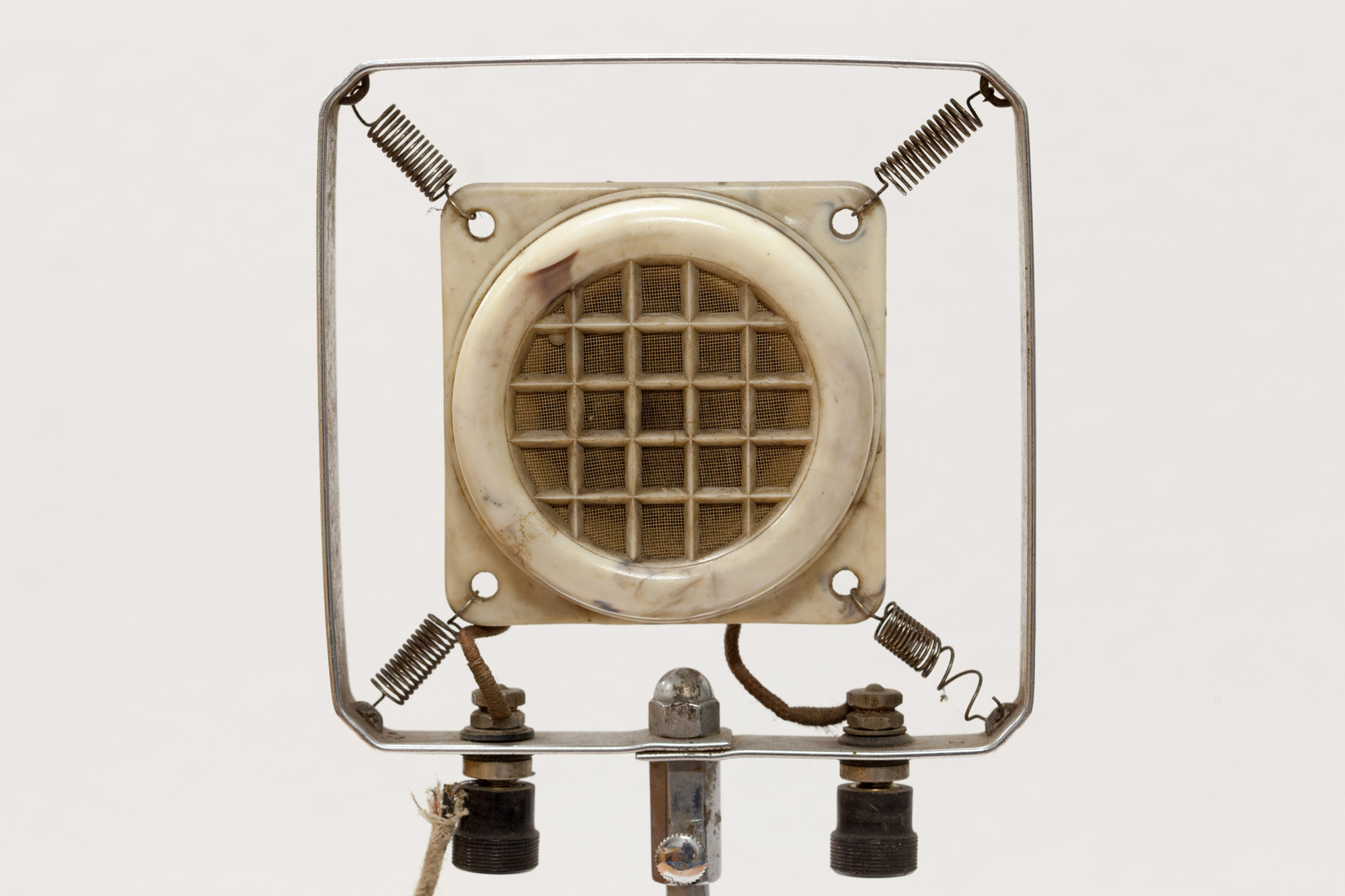 Coal microphone made by Alois Zettler, probably 1920ies. Museum für Kommunikation, Frankfurt, Germany. Photo by Maximilian Schönherr with help from Lioba Nägele.